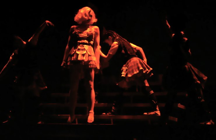 Gwen Stefani and the Harajuku Girls performing "What You Waiting For?" in Duluth, Georgia, United States